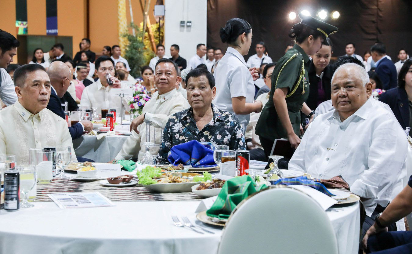 President Rodrigo Roa Duterte joins the 2019 Eid'l Fitr Celebration at the Arcadia Active Lifestyle Center in Davao City on June 6, 2019. Accompanying the President is Executive Secretary Salvador Medialdea. TOTO LOZANO/PRESIDENTIAL PHOTO